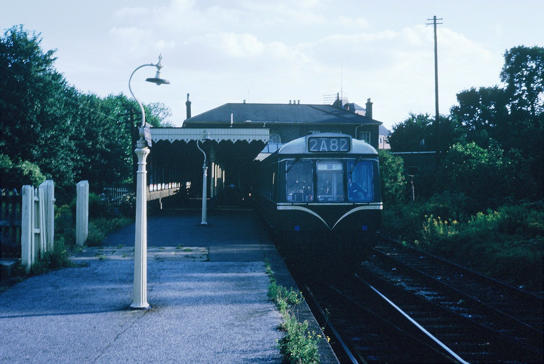 British Rail Class 121 railcar at Staines West railway station, Middlesex